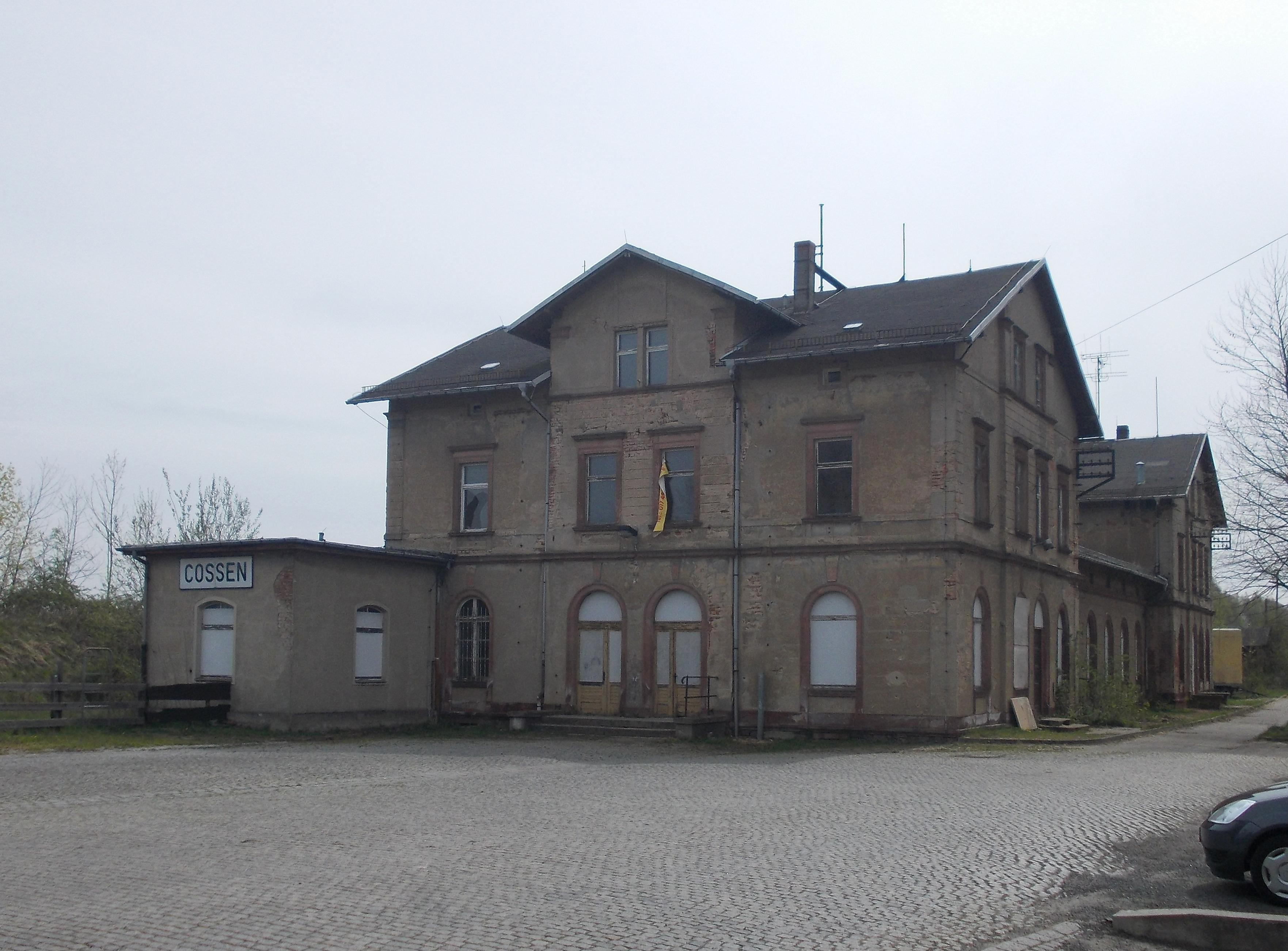 Cossen train station (Lunzenau, Mittelsachsen district, Saxony)